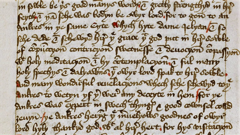 An excerpt from Chapter 18 of Margery Kempe's autobiography, telling of her life and travels in England and on pilgrimage. The excerpt gives details of her visit to Norwich to see "Dame Jelyan" (now known as Julian of Norwich).